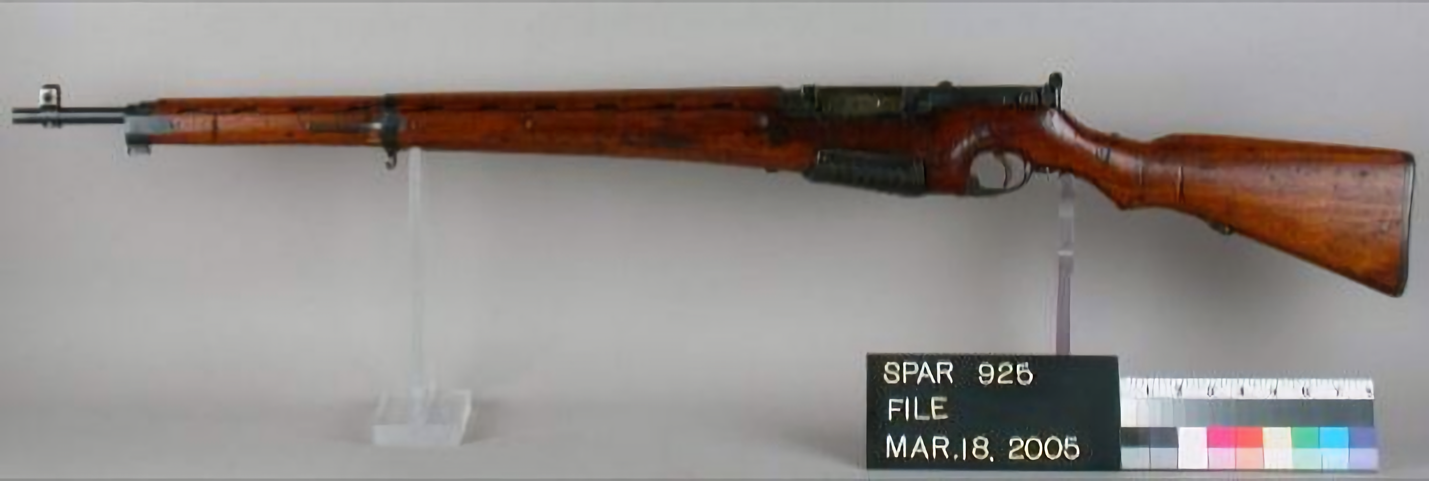 Japanese copy of Pedersen.